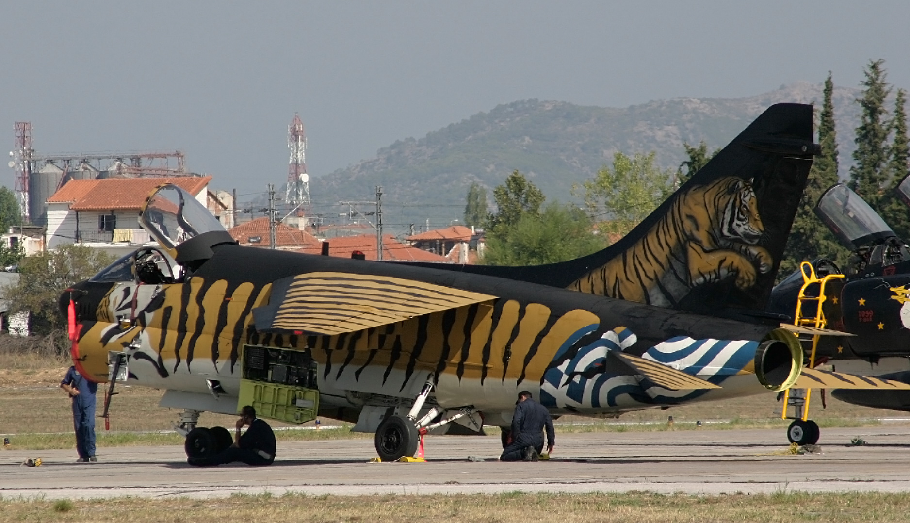 Special "Tiger" painting for this A-7 Corsair of the Hellenic Air Force. First seen at Archangelos 2005 airshow.